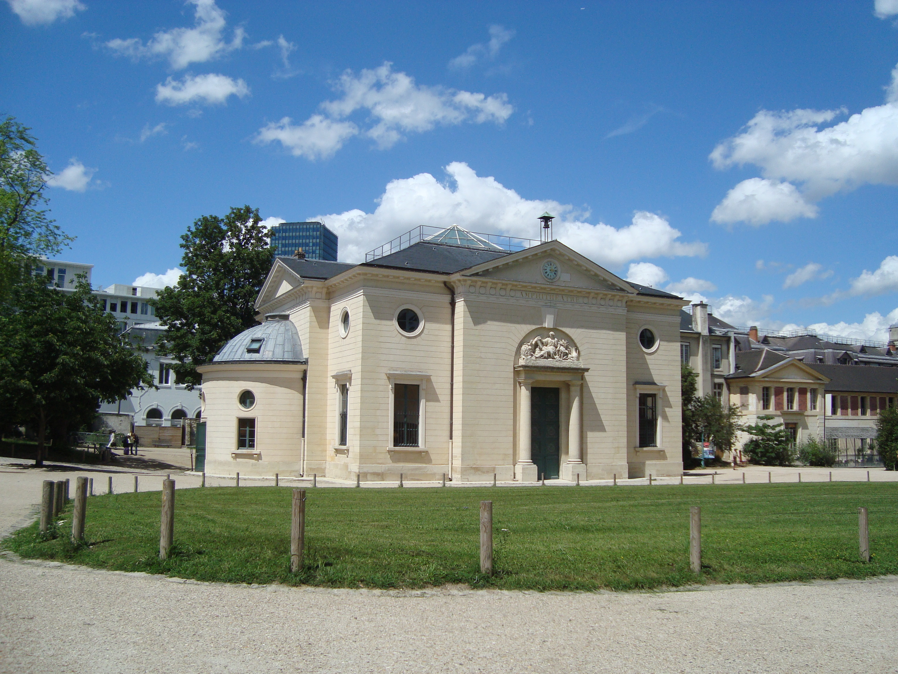 View of the historical auditorium of the Jardin des Plantes in Paris built ca 1770 and renovated in 2009